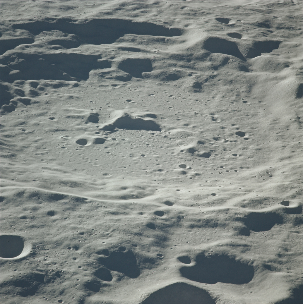 Oblique view of most of Spencer Jones, facing north.